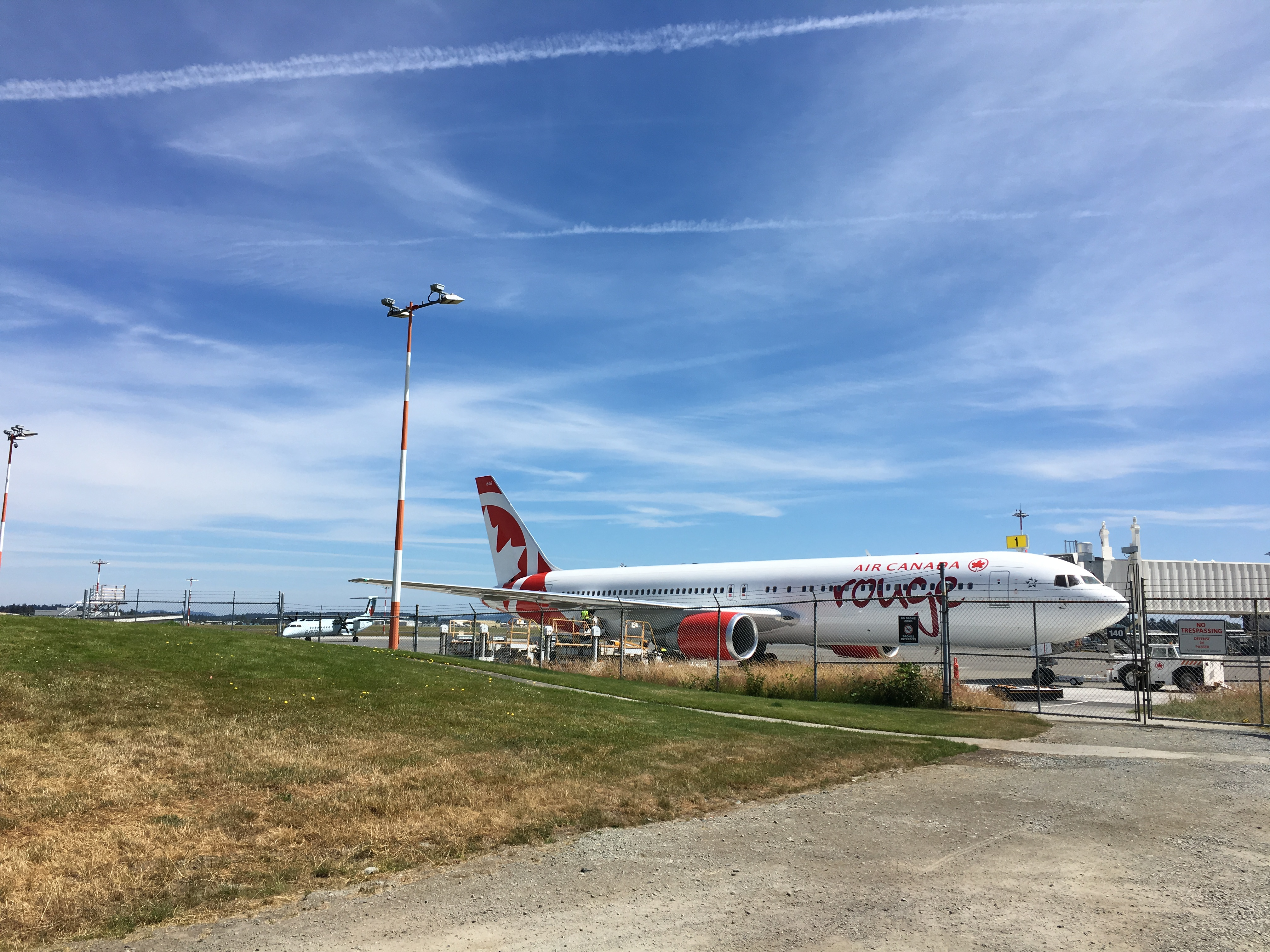 An Air Canada Rouge Boeing 767-300 at Victoria (CYYJ) before departing for Toronto (CYYZ)